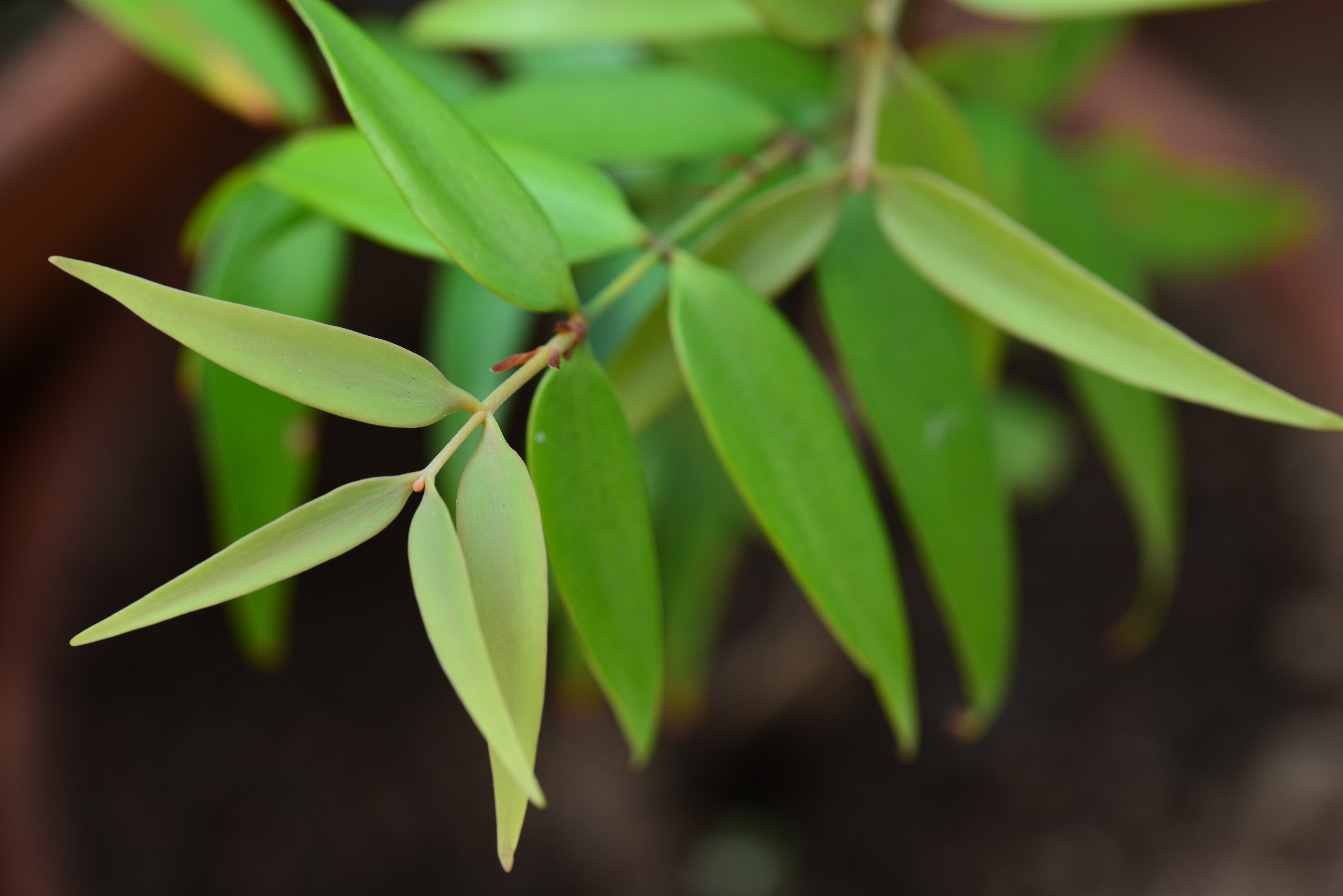 Agathis dammara (syn. A. philippinensis) - young tree in a nursery on Negros Island, Philippines